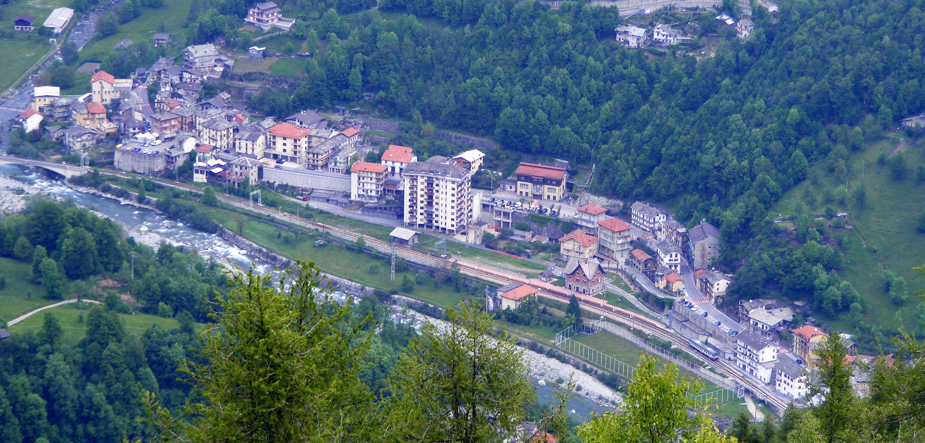 Pessinetto (TO, Italy): panorama from Monte Crestà; il the foreground Stura di Lanzo creek